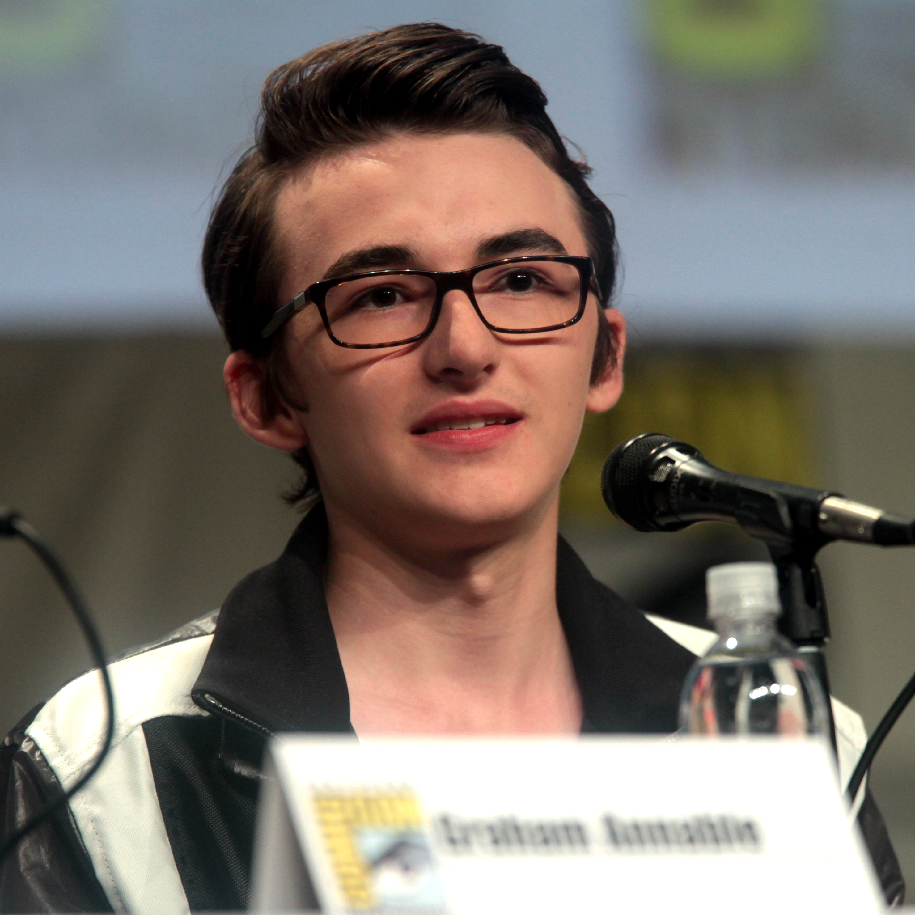 Isaac Hempstead-Wright speaking at the 2014 San Diego Comic Con International, for "The Boxtrolls", at the San Diego Convention Center in San Diego, California.